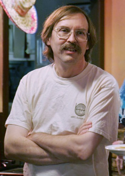 Larry Wall on YAPC::NA pre-conference party. June 2007, Houston. Crop of original photo.